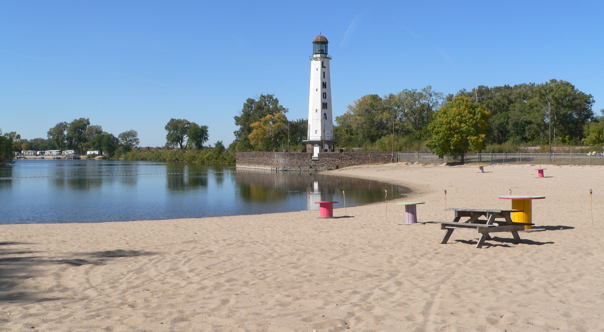 Linoma Beach, located at U.S. Highway 6 crossing of Platte River in Sarpy County, Nebraska. The beach resort is listed in the National Register of Historic Places.